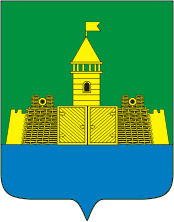 Abinsk rayon (Krasnodar krai), coat of arms